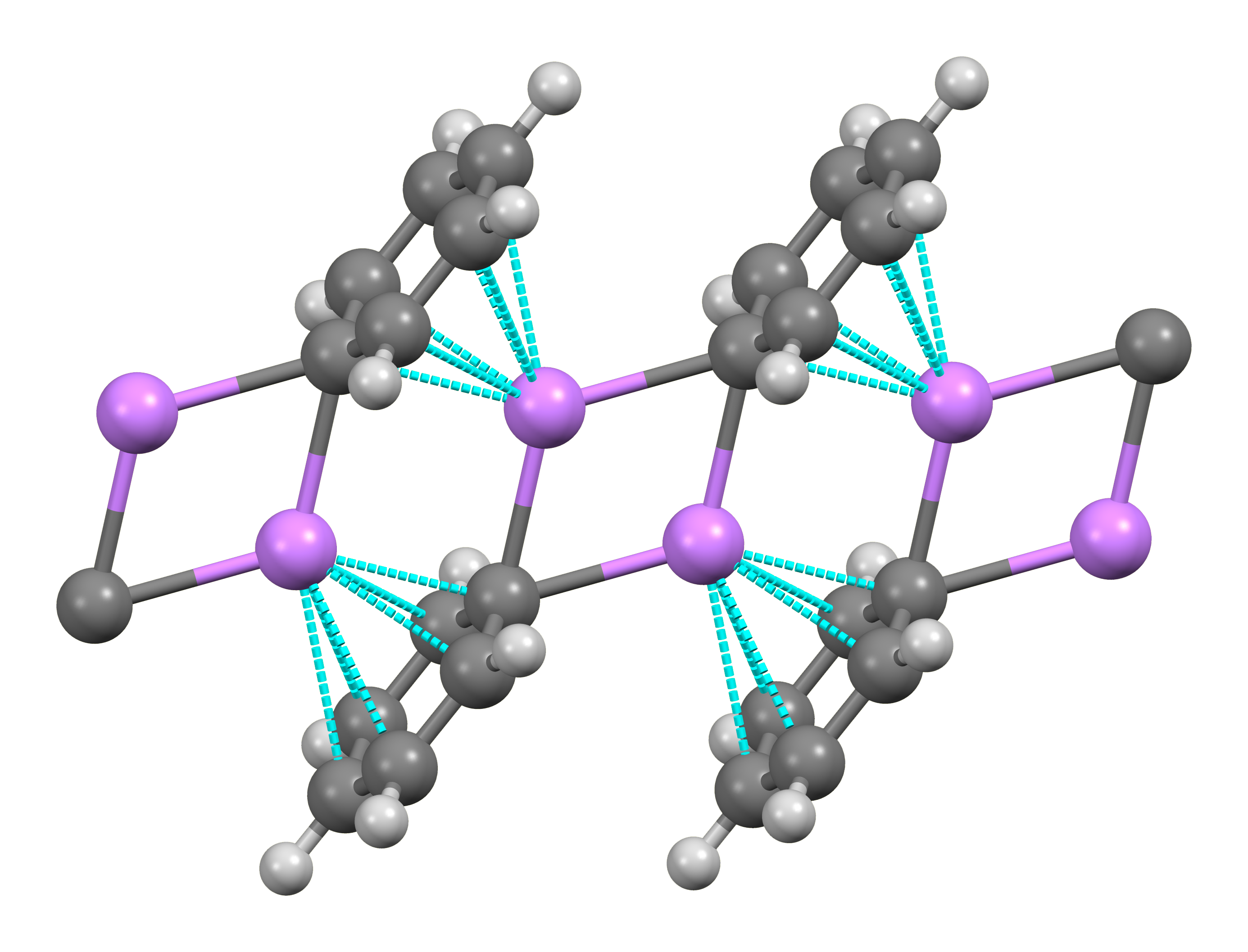 Ball-and-stick model of a (PhLi)n chain, as found in the crystal structure of phenyllithium. Colour code: Carbon, C: grey Hydrogen, H: white Lithium, Li: lilac Structure (determined by X-ray powder diffraction) from J. Am. Chem. Soc. (1998) 120, 1430–1433 (PUDLUV). Model manipulated and image generated in CCDC Mercury 2.4.